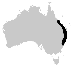 Distribution of Dusky Toadlet (Uperoleia fusca) User:Froggydarb/GFDL-self